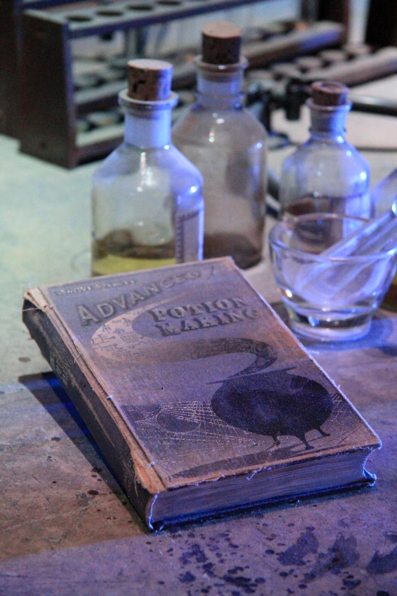 Warner Bros. Studio Tour London: The Making of Harry Potter.